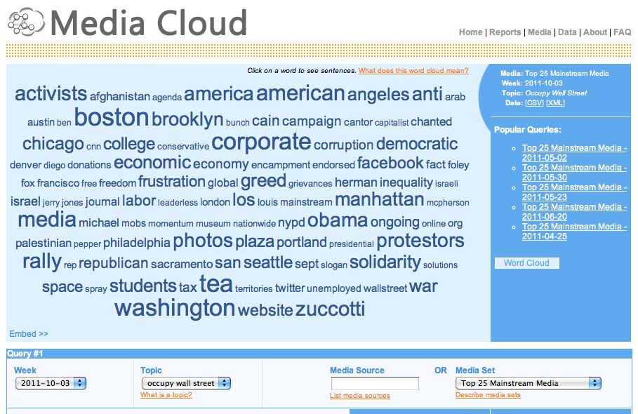 Screen grab of Media Cloud content analysis tool, showing top 25 U.S. news sources' coverage of "Occupy Wall Street" for the week of October 3, 2011.